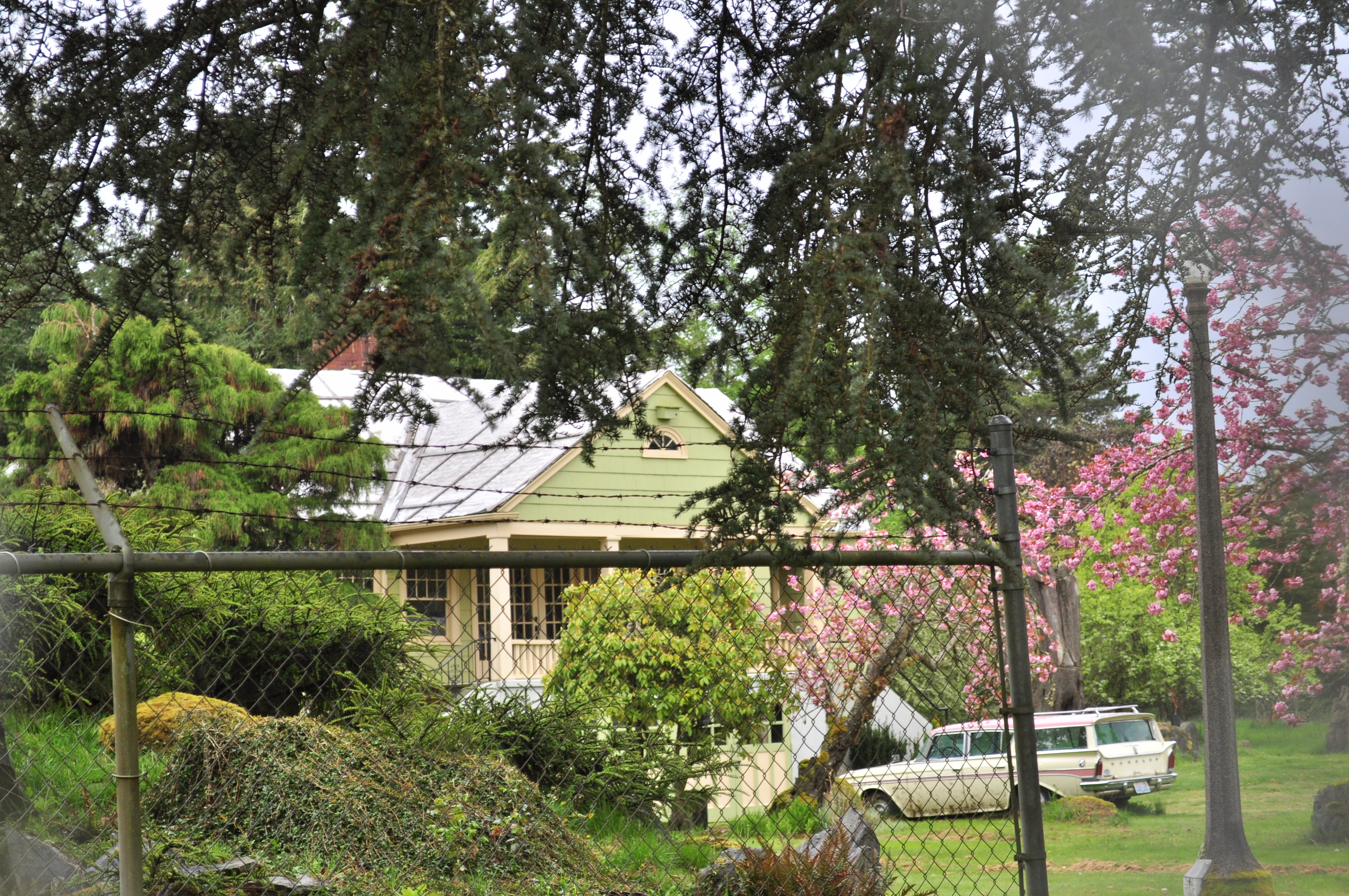 Mukai residence, part of the Mukai Cold Process Fruit Barrelling Plant property, Vashon, Washington.